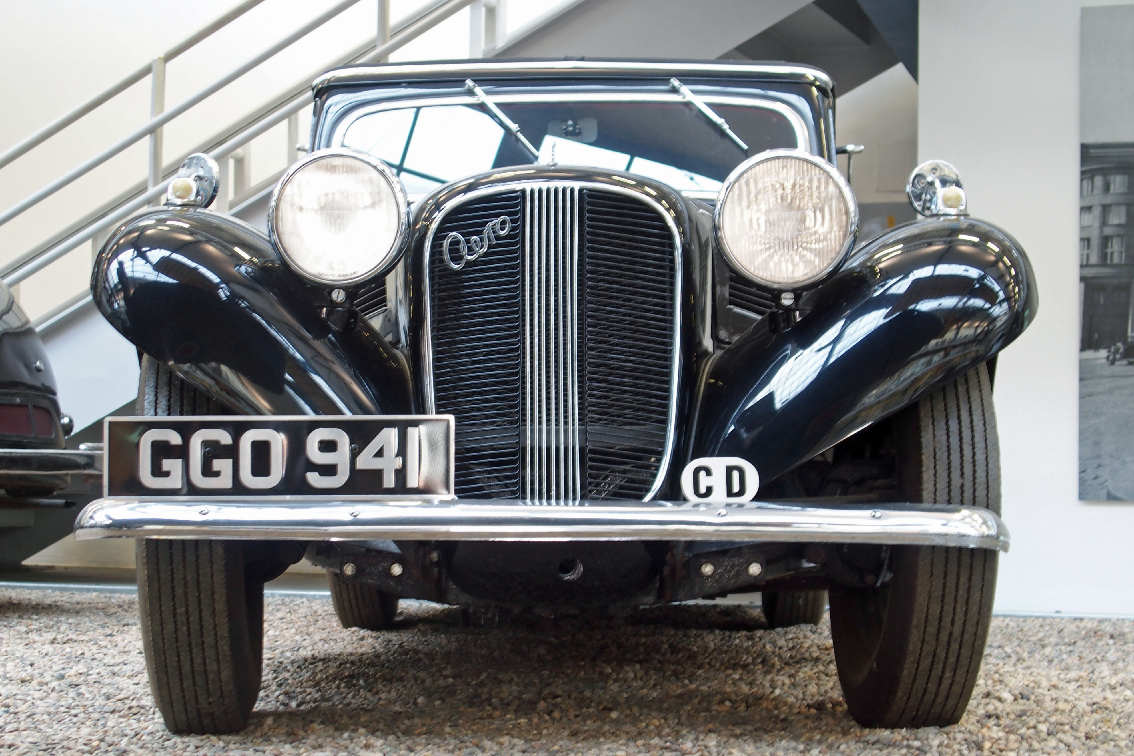 Aero 50hp 1939 at NTM, Prague